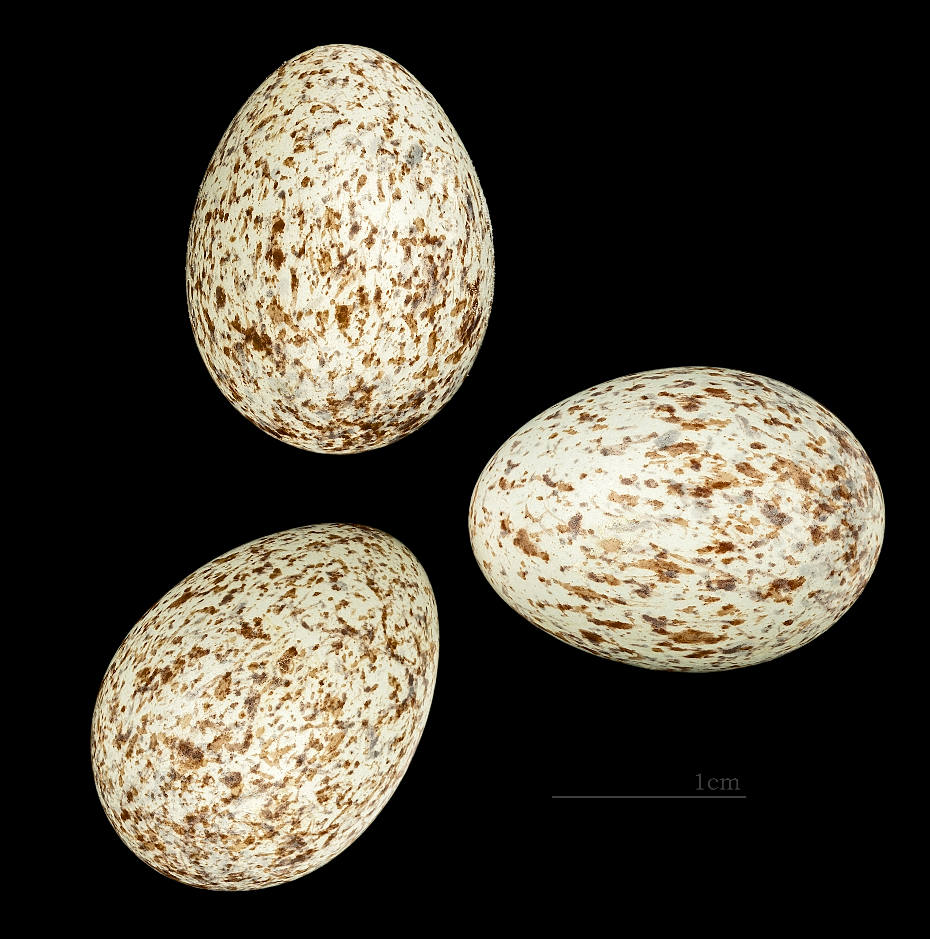 Egg of House Bunting Collection of Henri Heim de Balsac/Jacques Perrin de Brichambaut.